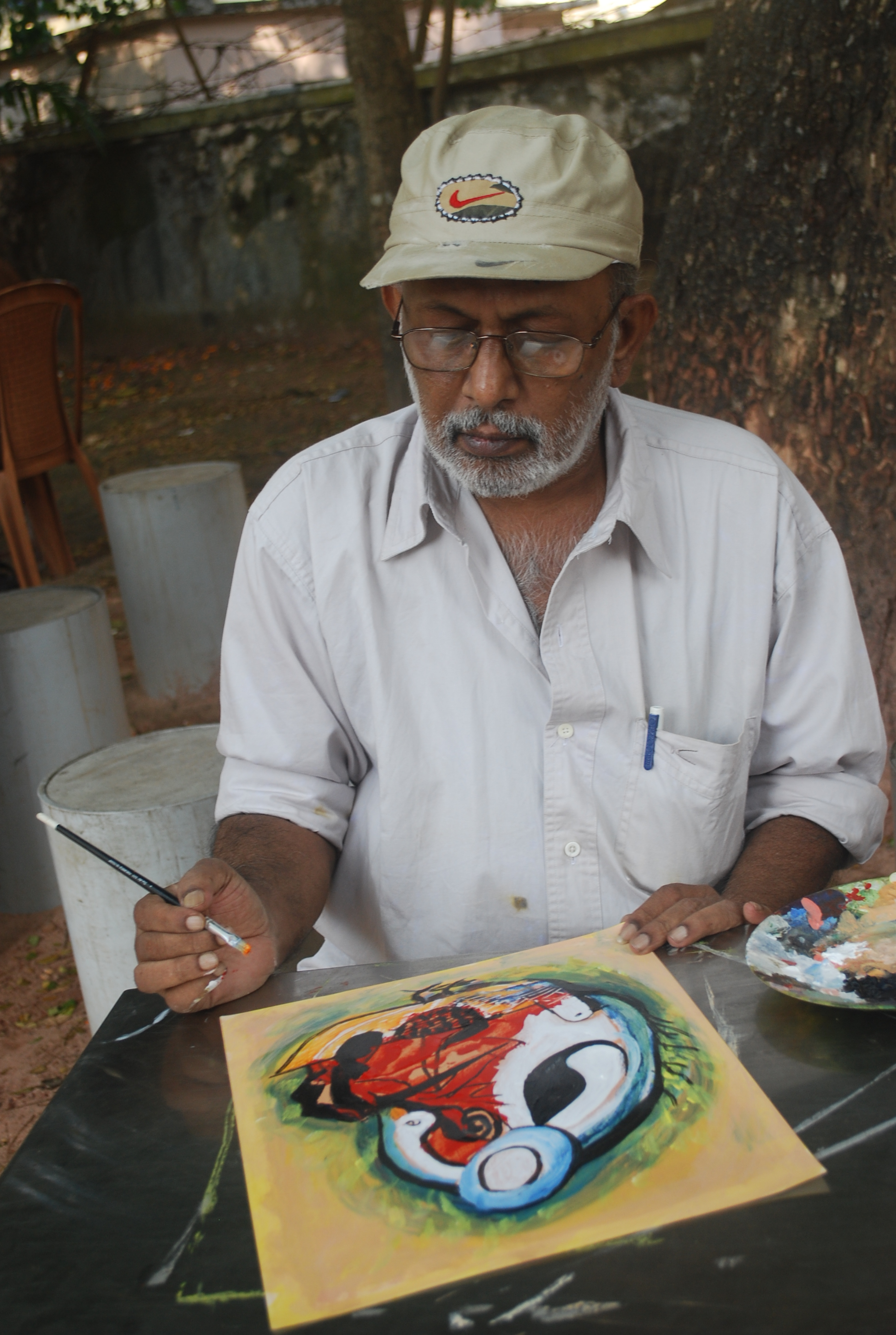 Artist Anoop sadasivan at Lalitha kala academy painting camp,Kollam 2012